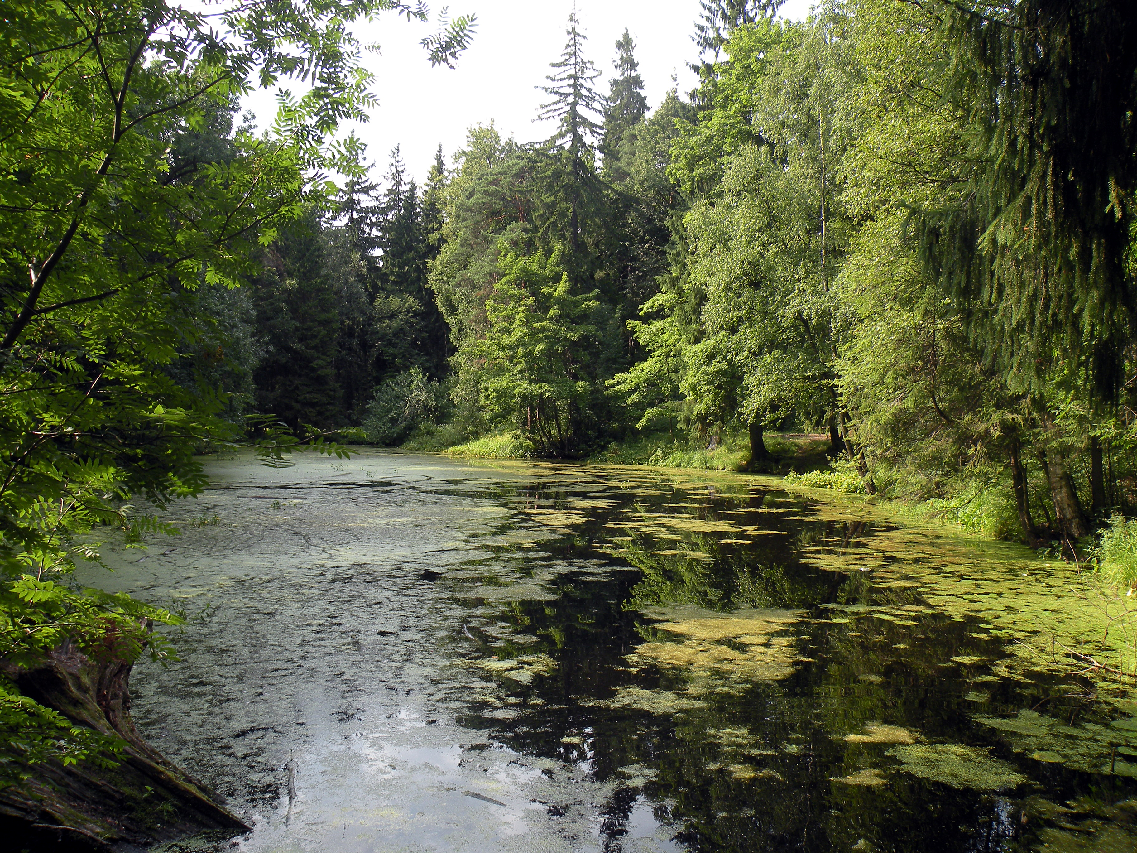 A lake in Shuvalovsky Park, Saint Petersburg, Russia.